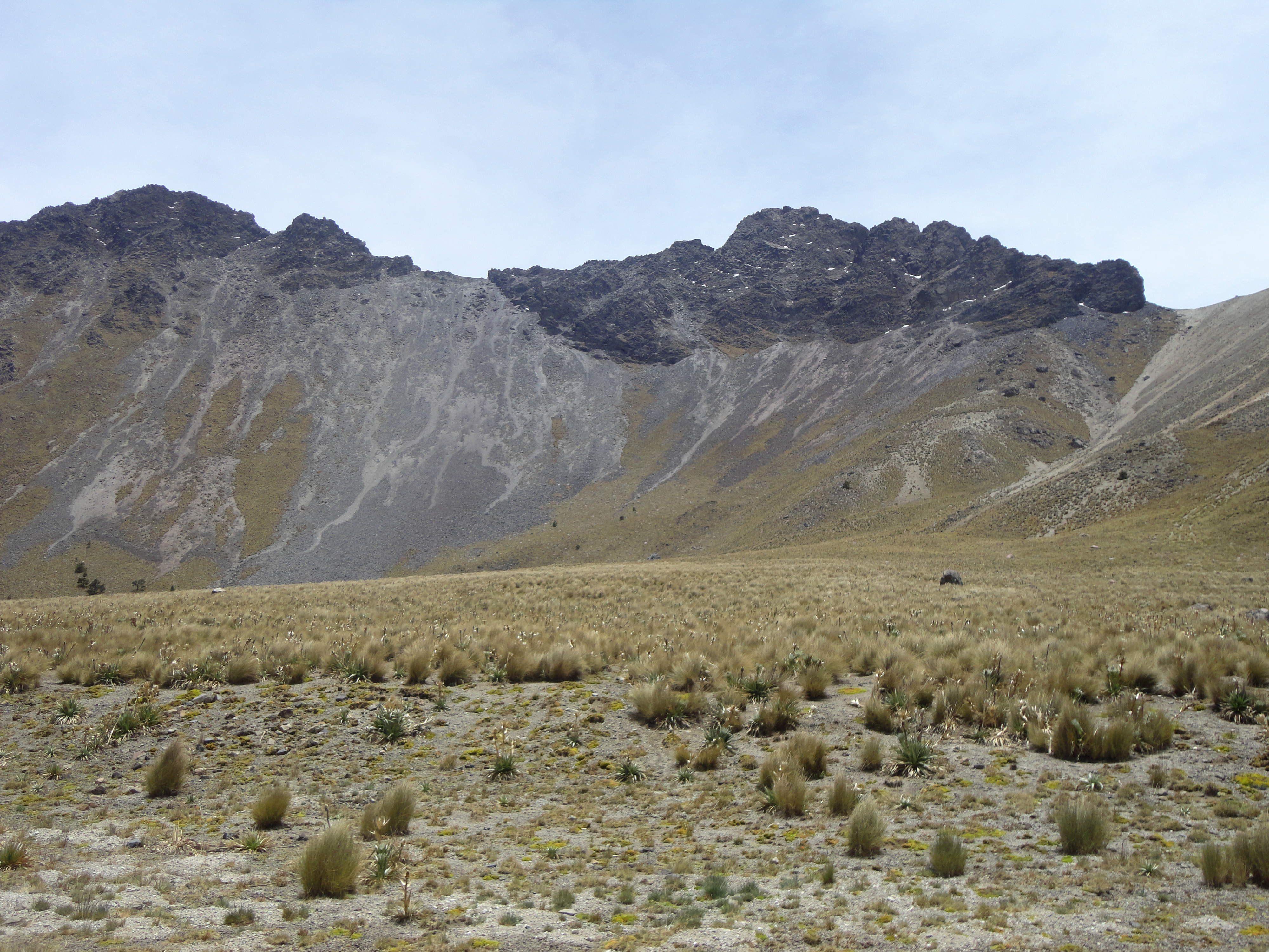 Área de zacatonal en el Nevado de Toluca -Estado de México, MX.